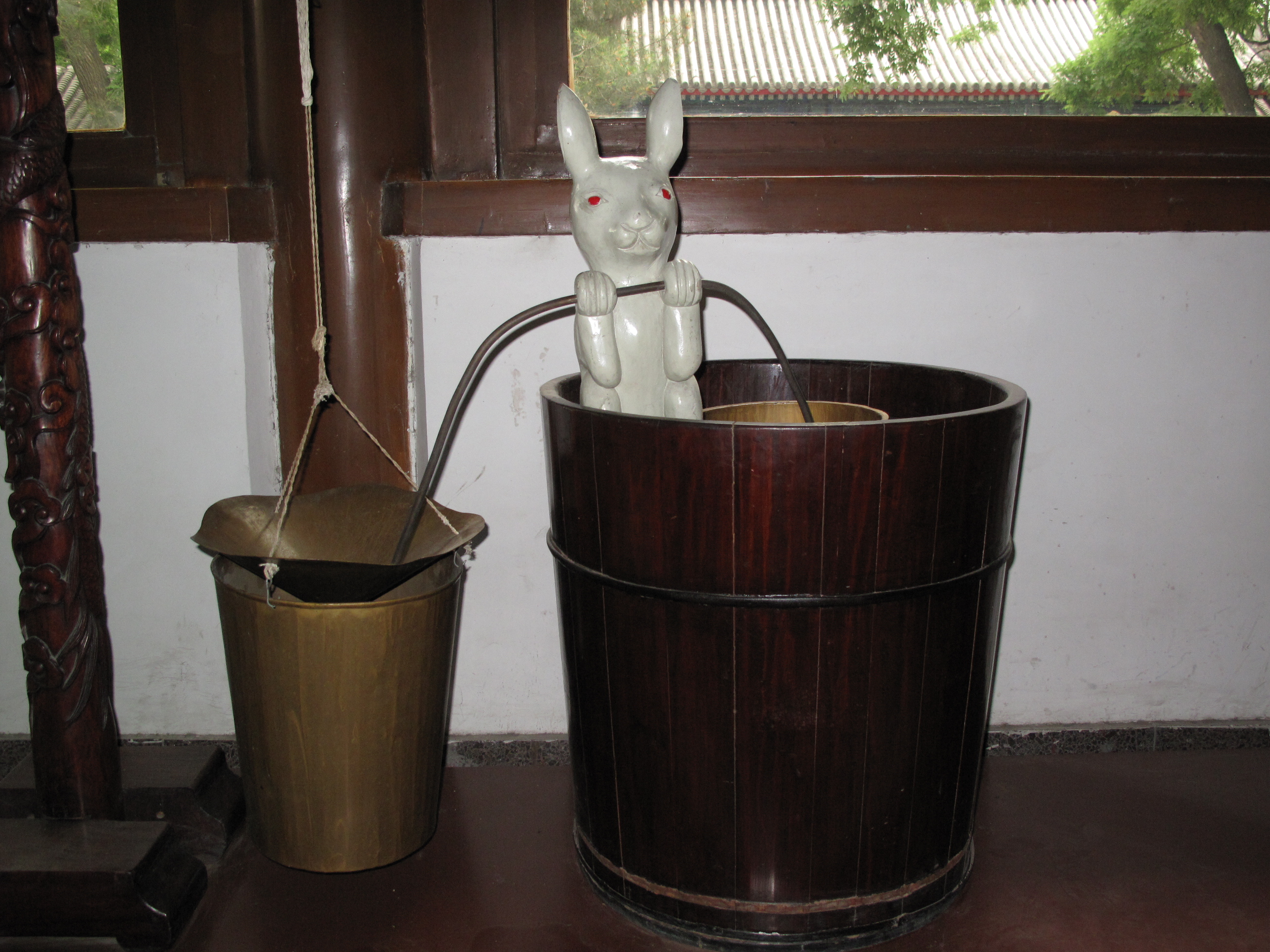 Steel Yard Clepsydra. Li Lan, Northern Wei dynasty, ca. 450 AD (replica). Ancient Observatory Museum, Beijing This is a closeup of the powering mechanism of a lever-arm water clock (clepsydra). Its operation depends on maintaining a drip siphon from the reservoir into the working bucket, whose descent raises a lever arm to tell the time. A float inside the reservoir allows the water to be taken from a constant level as it drains; this evens out the rate of the clock.